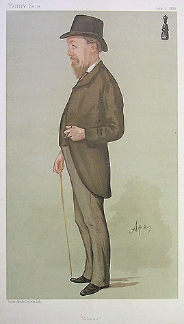 Caricature of Joseph Henry Blackburne (1841-1924). Caption read "Chess".